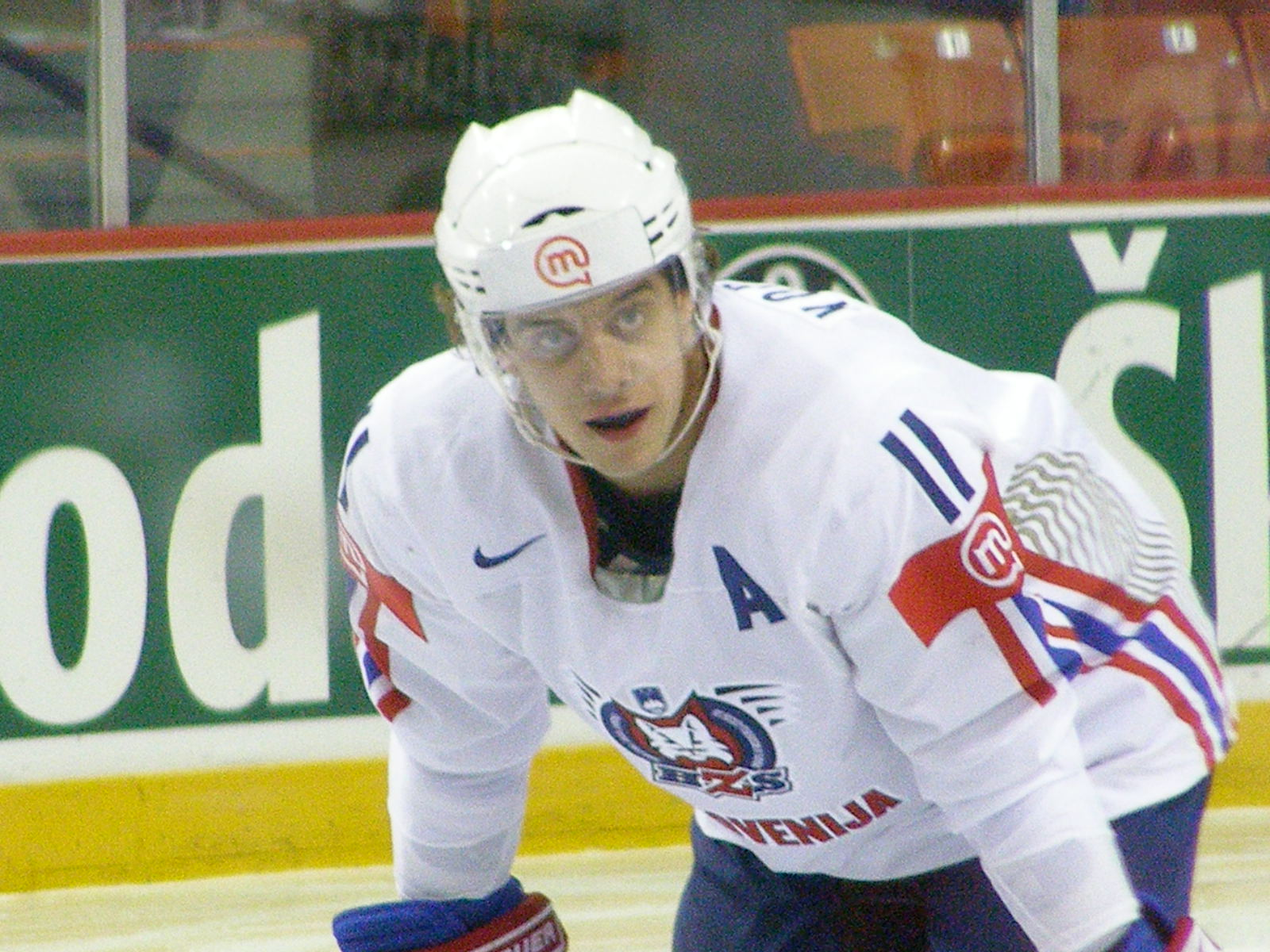 Slovenia VS USA (IIHF World Hockey Championship in Halifax NS, May 4 2008)